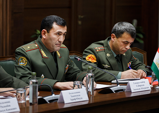 Начальники Генеральных штабов вооруженных сил Таджикистана генерал-майор Эмомали Собирзода